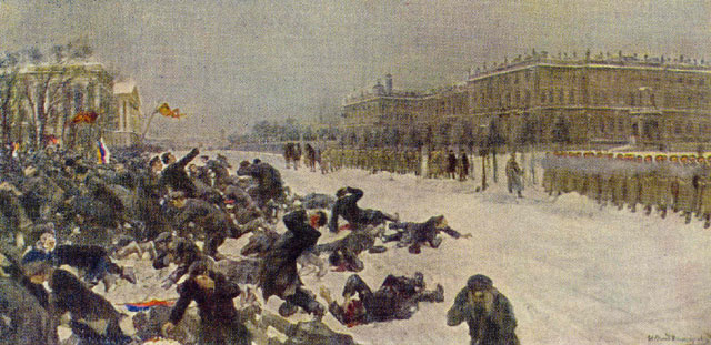 Bloody Sunday. Shooting workers near the Winter Palace. Painting by Ivan Vladimiriv.